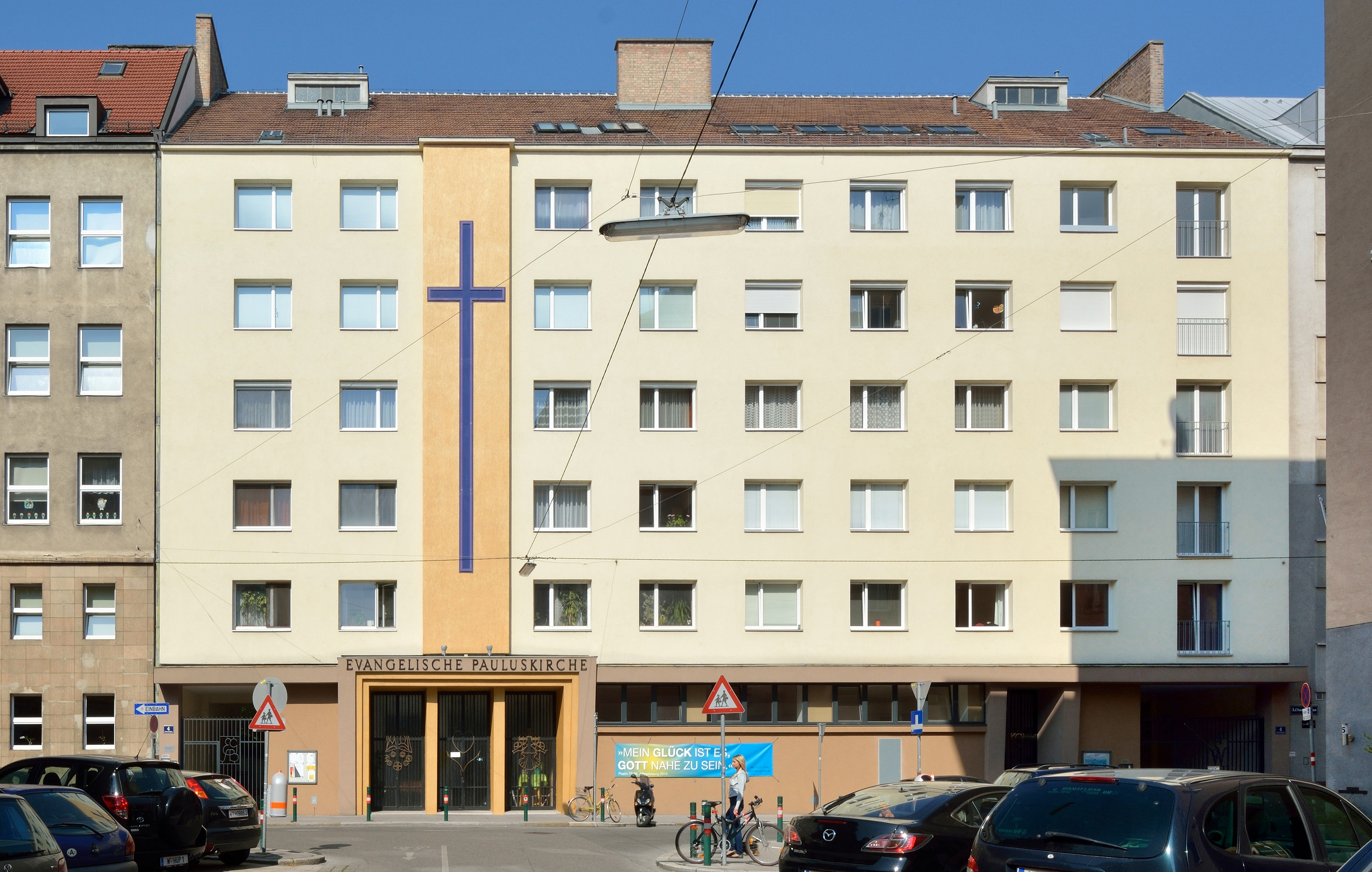 Protestant church Pauluskirche, Sebastianplatz 4, 3rd district of Vienna